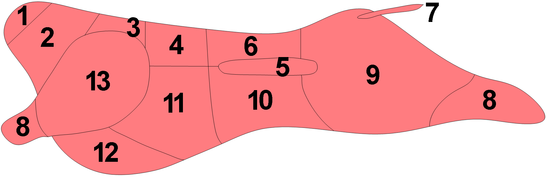 Polish beef cuts